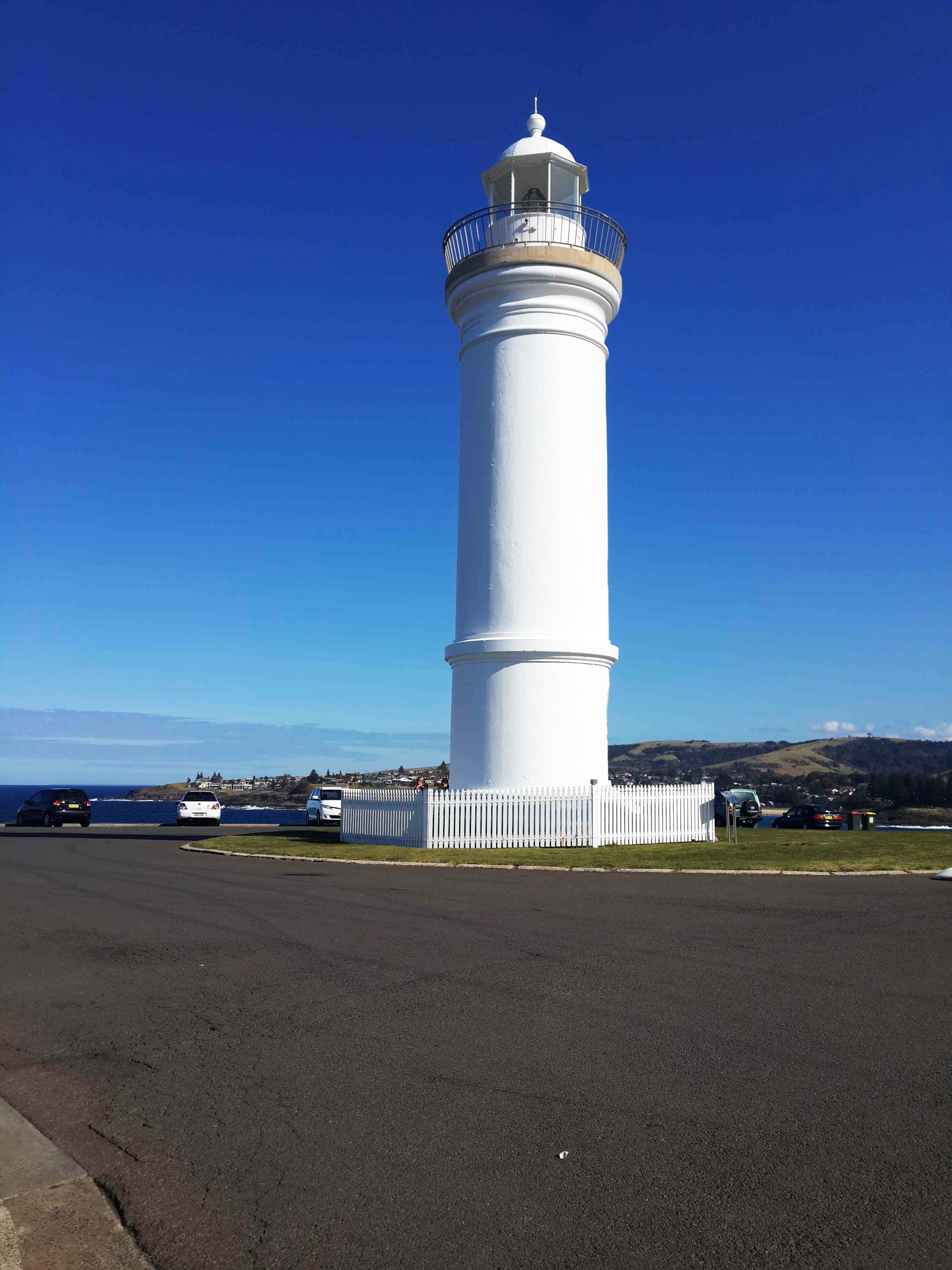 Lighthouse of Kiama, New South Wales